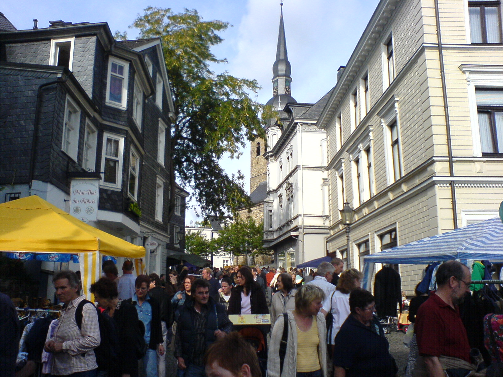 Description: Langenberg (Rheinland) Germany: flea market Source: own photo Date: October 1, 2006 Author: Gerd Thiele